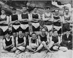 Redhead Surf Lifesaving ClubRedhead SLSC.